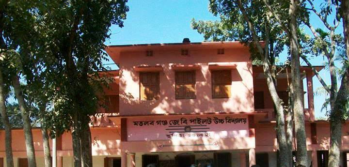 স্থাপিত : ১ লা জানুয়ারী, ১৯১৭